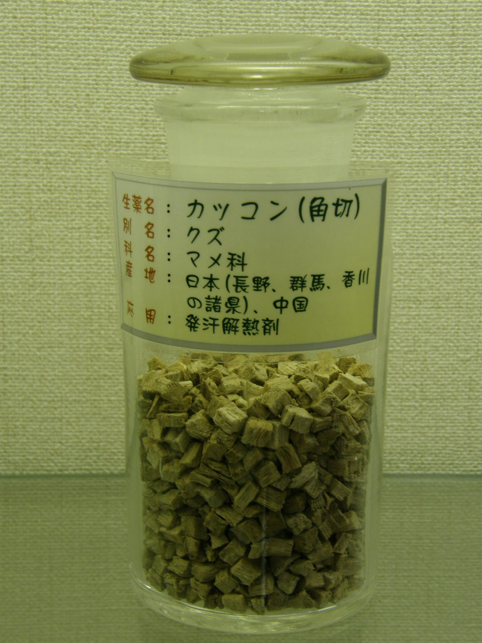 Pueraria lobata